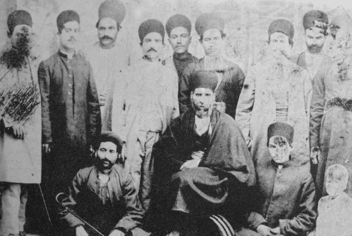 Naieb Hosein Kashi